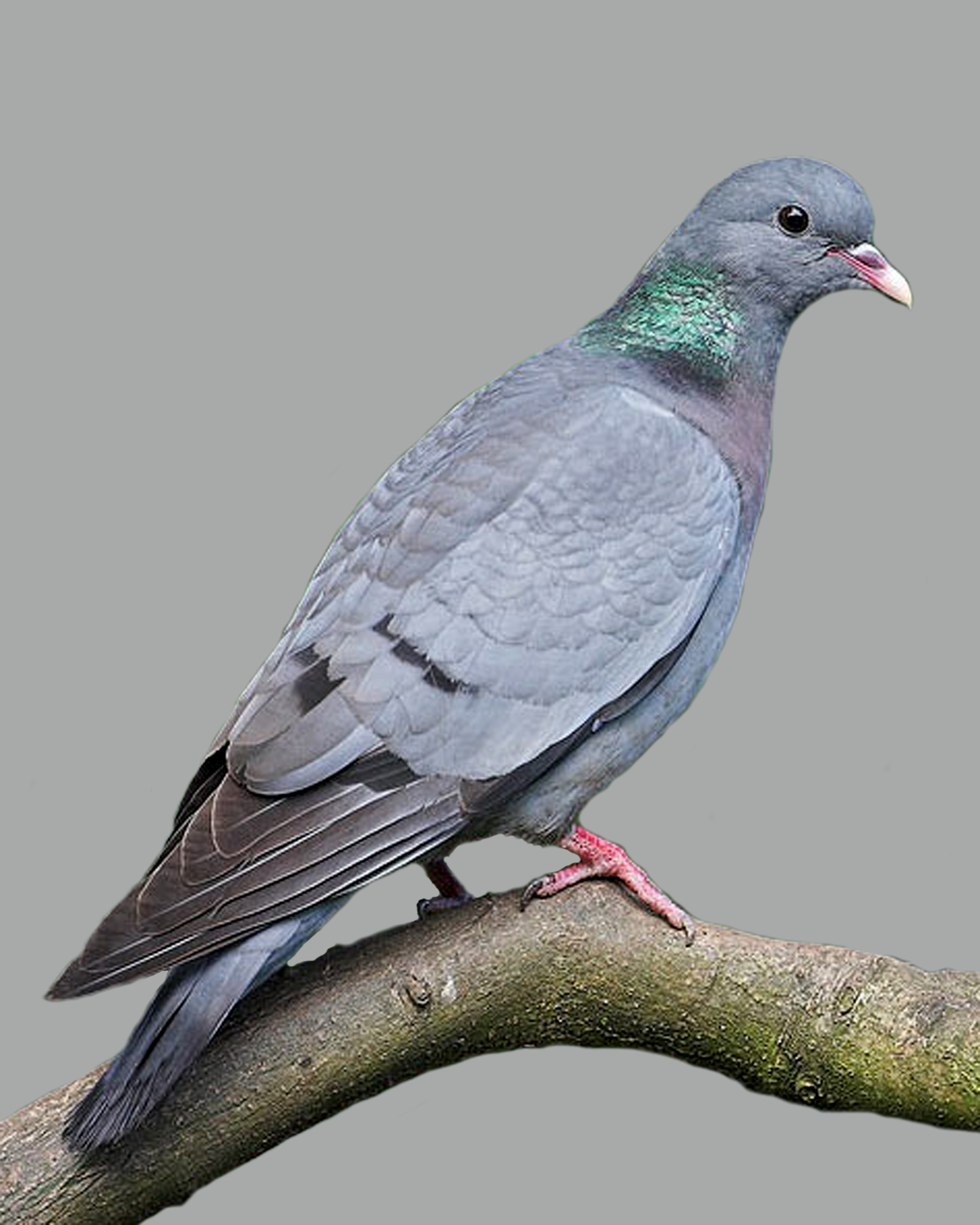 Stock Dove